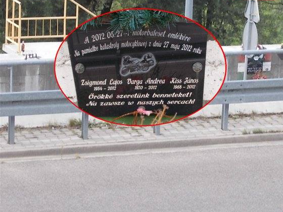 Memorial plate of the three people who died in the motorbike accident near Lubień, Lesser Poland Voivodeship